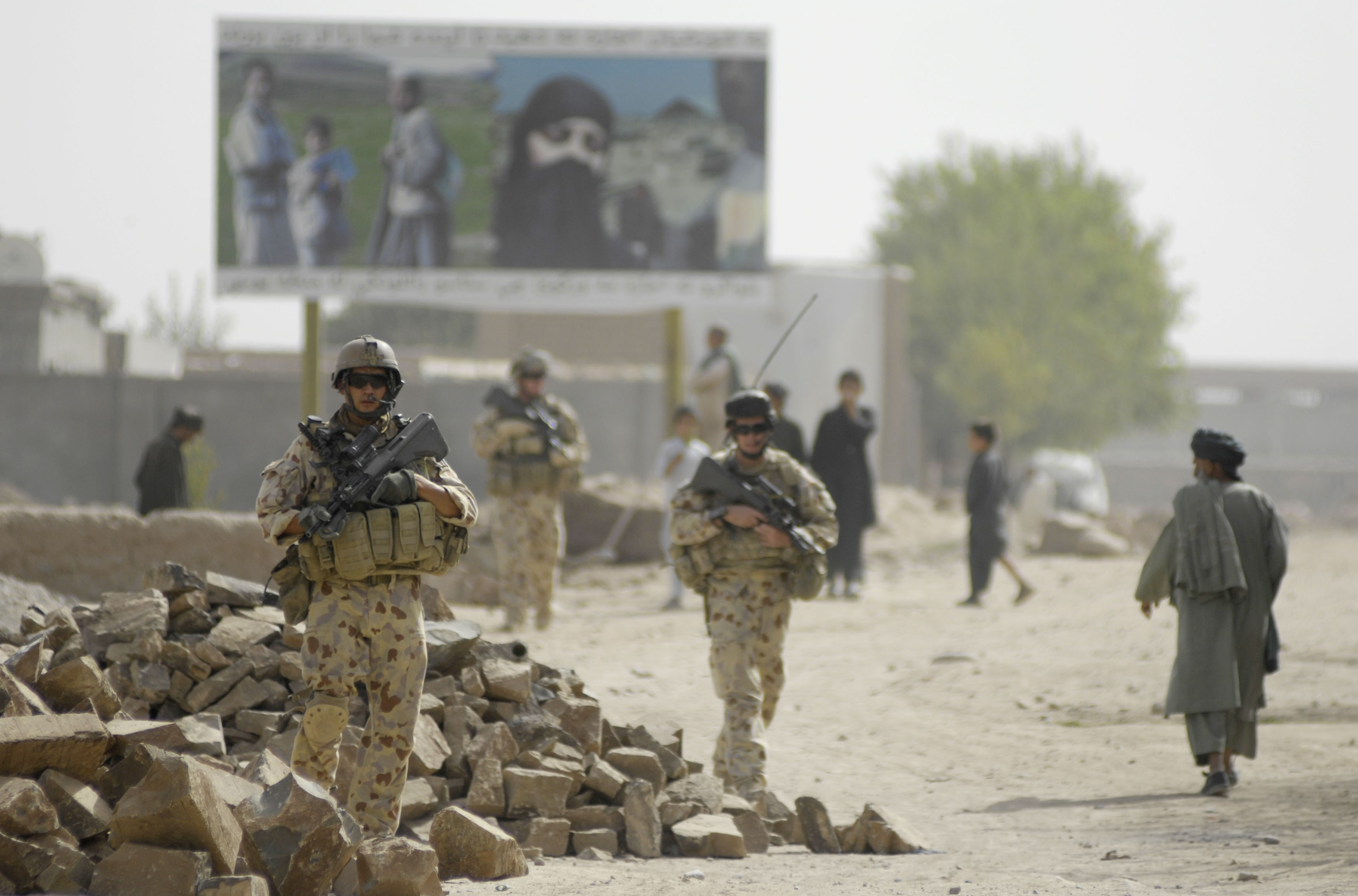 Lt. Tyson Yew, from 2nd Platoon, 3rd Battalion (Para), the Royal Australian Regiment leads his platoon on International Security Assistance Force mission foot patrol of the town of Tarin Kowt, Aug. 16, 2008.